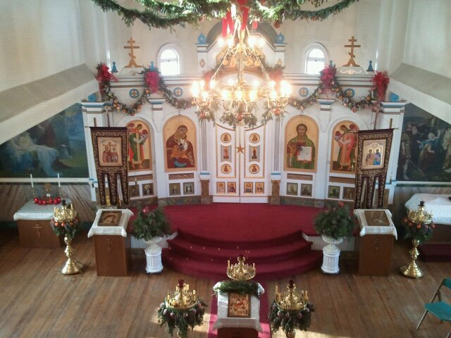 Inside the Holy Resurrection Orthodox Church in Berlin, N.H. Christmas photo (my own photo that I took).